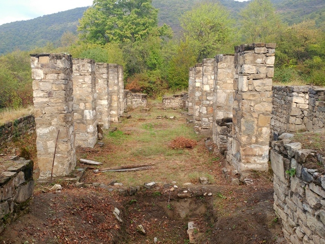 Chabukauri basilica. A ruined 5th-century church in Kakheti, eastern Georgia.